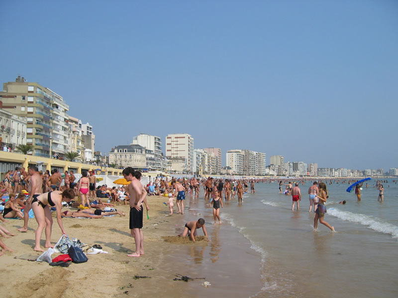 A picture-perfect beach resort city along the Atlantic coast, from the packed beach to the pastel '60s slabs. Guess who the Americans are?